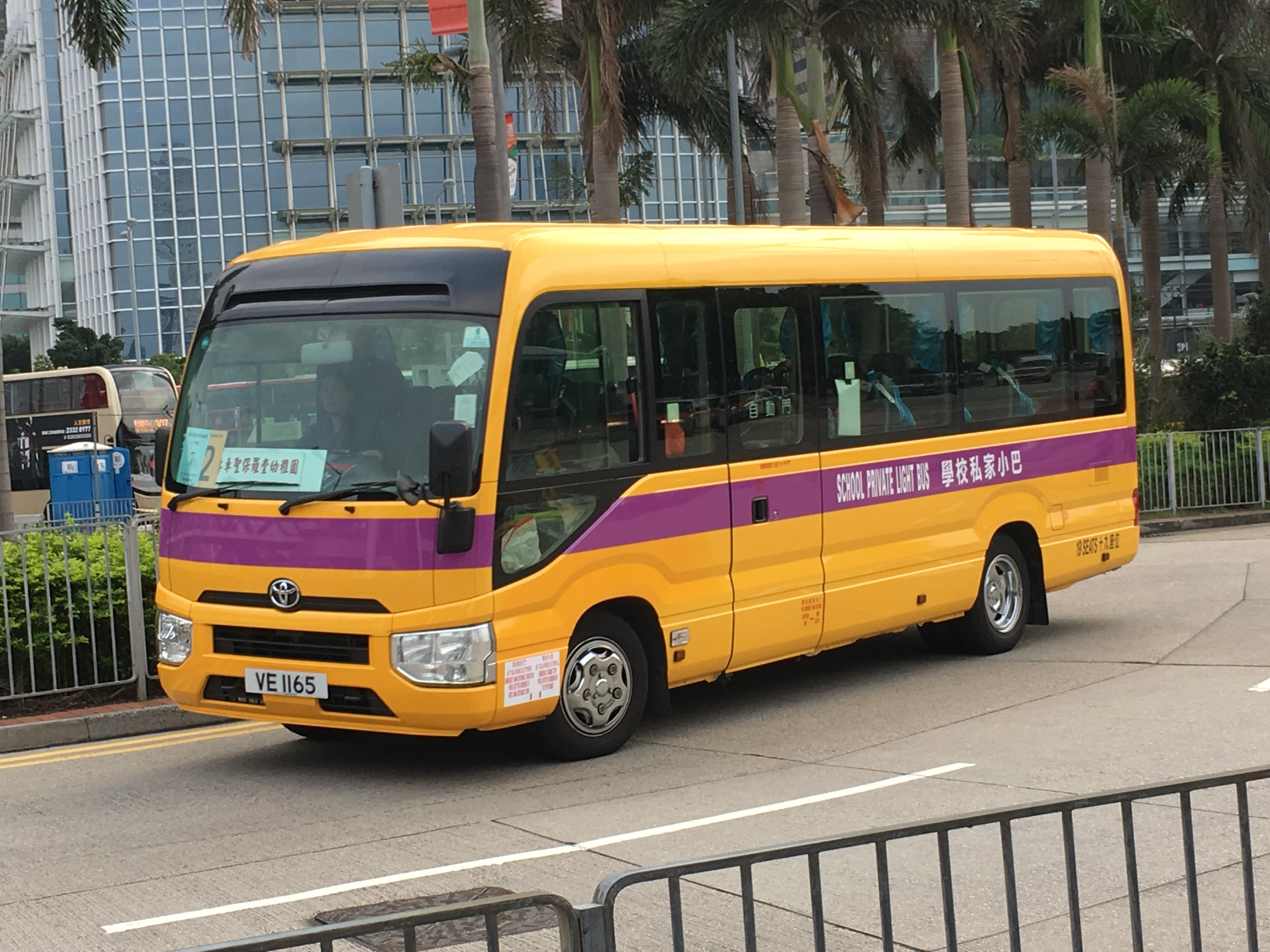 中文（香港）: This photo is taken in Central.